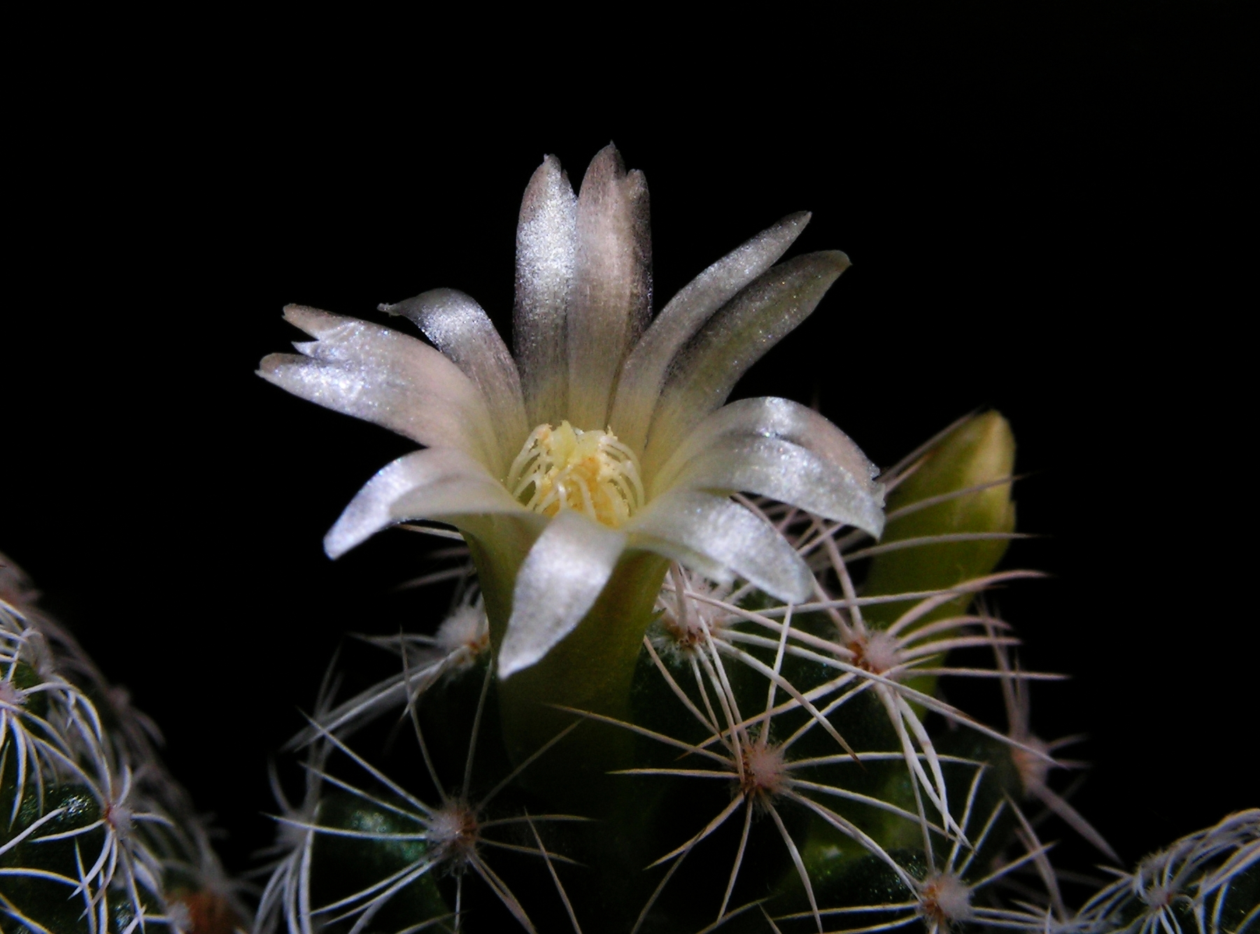 Mammillaria gracilis Pfeiff. [syn. Mammillaria vetula subsp. gracilis (Pfeiff.) D.R.Hunt] Flower of Mammillaria gracilis.